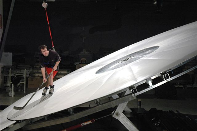 I made this image